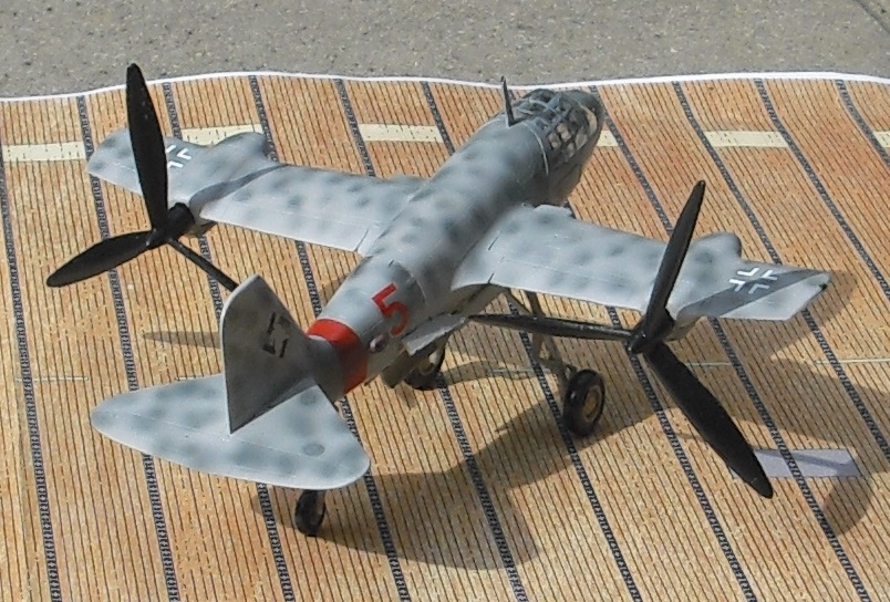 Focke-Achgelis Fa 269 model picture. I'll put the same pic onto Some further pics can be found at